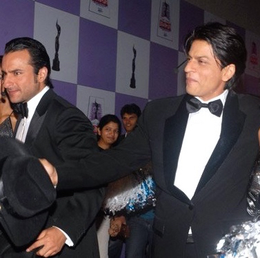 Indian actors Shah Rukh Khan and Saif Ali Khan at the 53rd Filmfare Awards in 2008